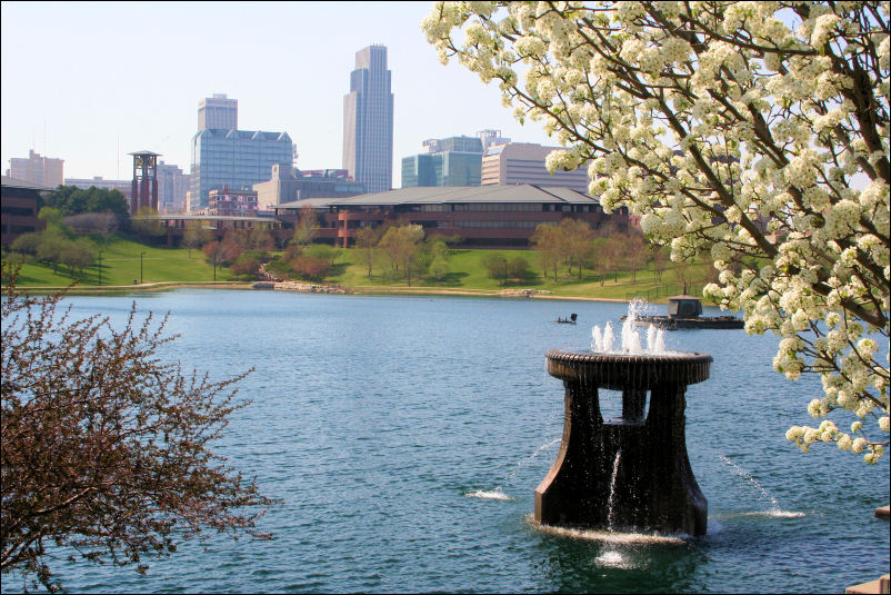 View of downtown from Heartland of America Park